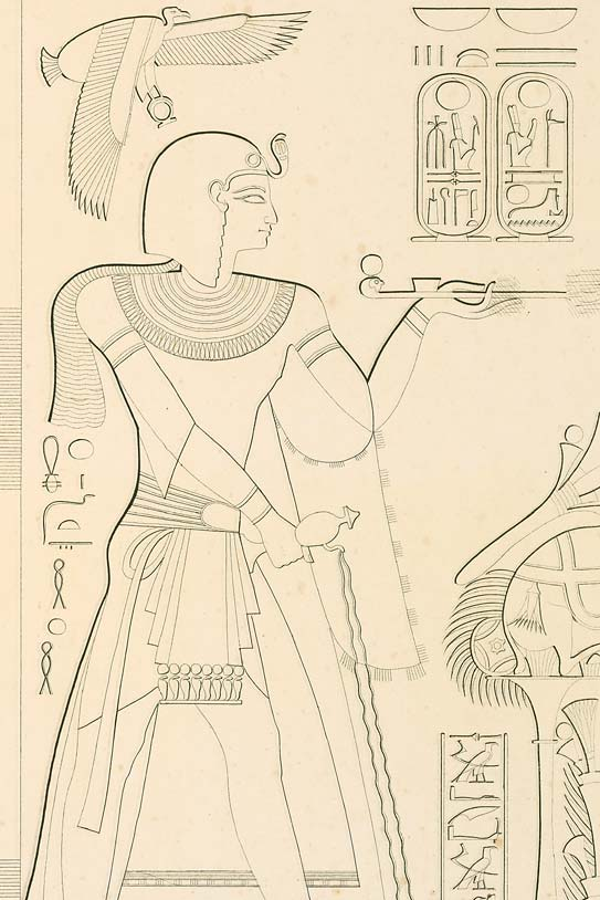 Drawing from tomb KV1. Closeup of pharaoh Ramesses VII while making an offer to a god. Valley of the Kings, Reign of Ramesses VII, 20th Dynasty, New Kingdom. [Lepsius' Denkmaeler, Abtheilung III (Band VII), pl. 234]